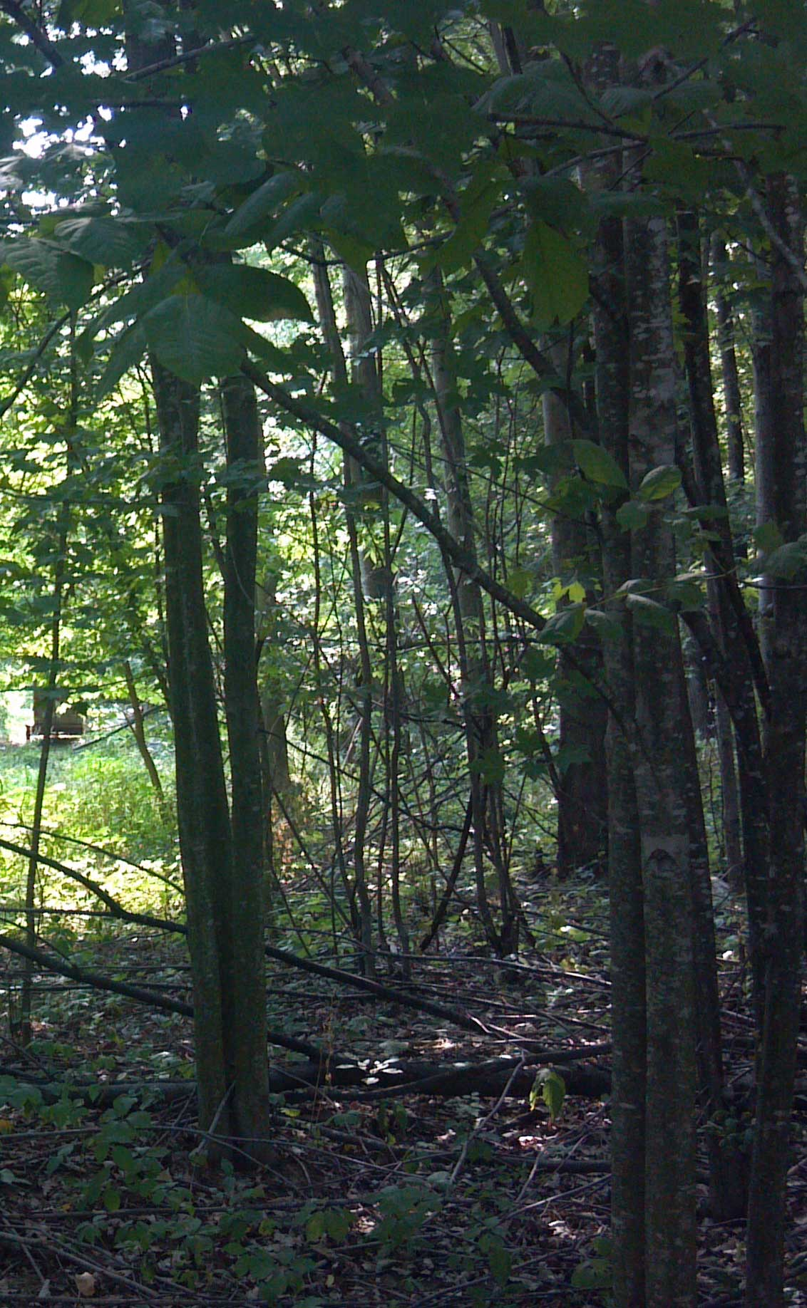 trees in Sherwood, Michigan